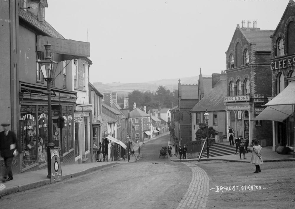 Abstract: Broad St. Knighton